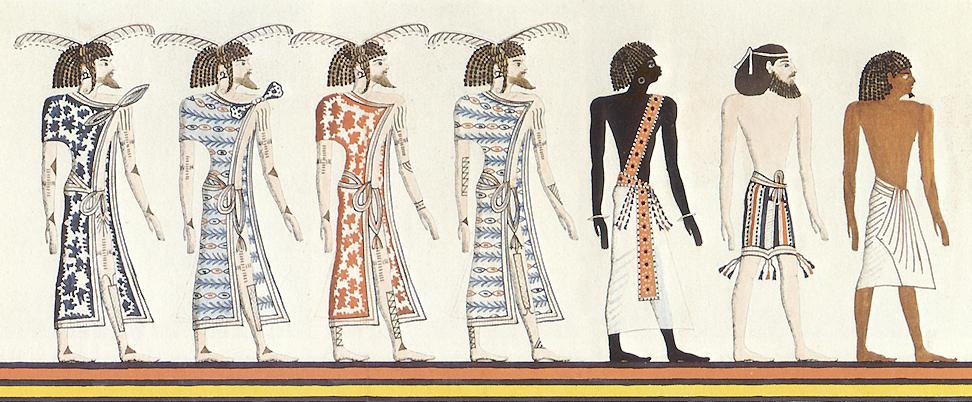 Libyans (Berbers), a Nubian, a Syrian, and an Egyptian, drawing by an unknown artist after a mural of the tomb of Seti I; Copy by Heinrich von Minutoli (1820). Note that the skin shades are due to the 19th century illustrator, not the Ancient Egyptian original.